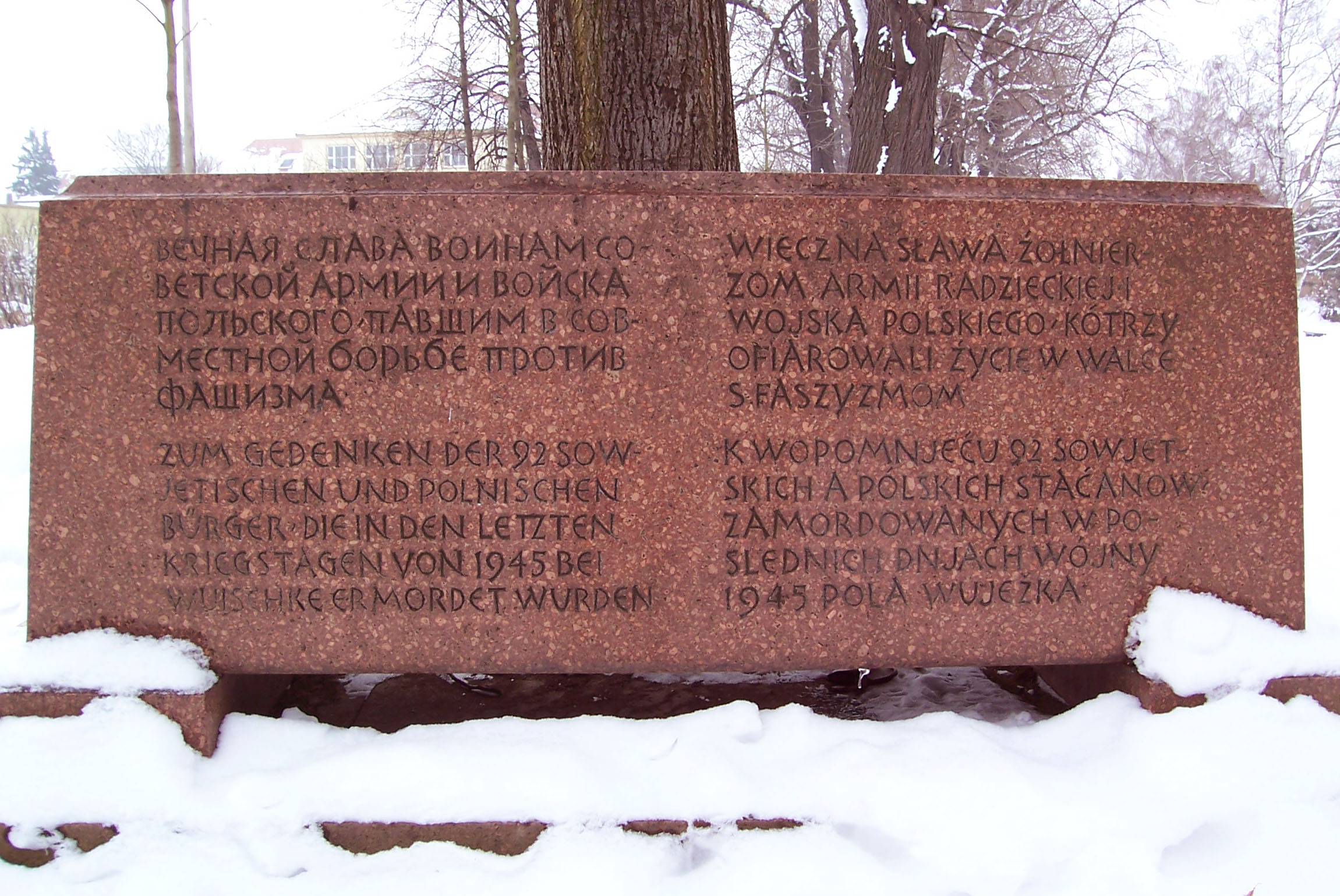 Monument to the Polish and Soviet fallen at the Battle of Bautzen (1945).